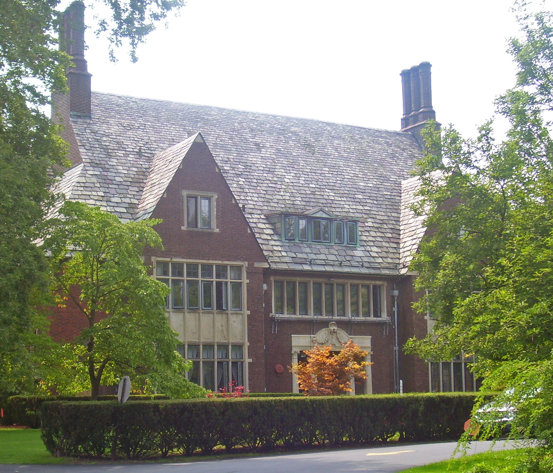 The Astor Home for Children — in Rhinebeck village, New York. Designed in the Jacobethan (Jacobean Revival) style for philanthropist Vincent Astor in 1914, by McKim, Mead & White. On the National Register of Historic Places in Rhinebeck.